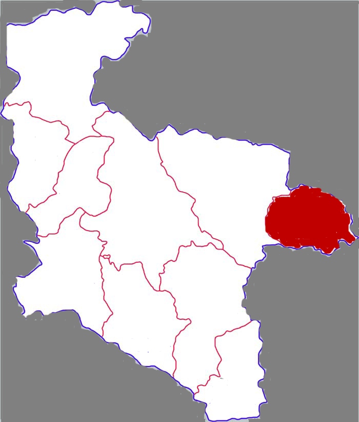 Location of Baihe county in Ankang city, China